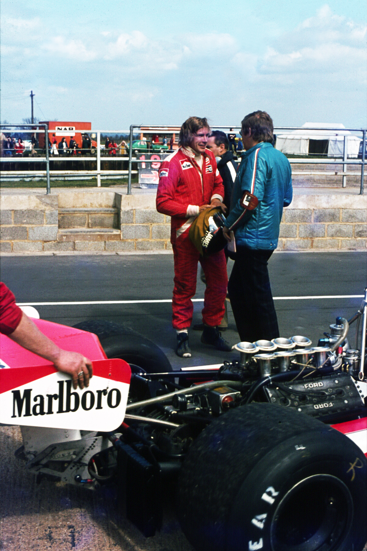 Before winning James Hunt talks with official in pits Daily Mail Race of Champions, Silverstone 1976 with McLaren M23 #M23/8-2